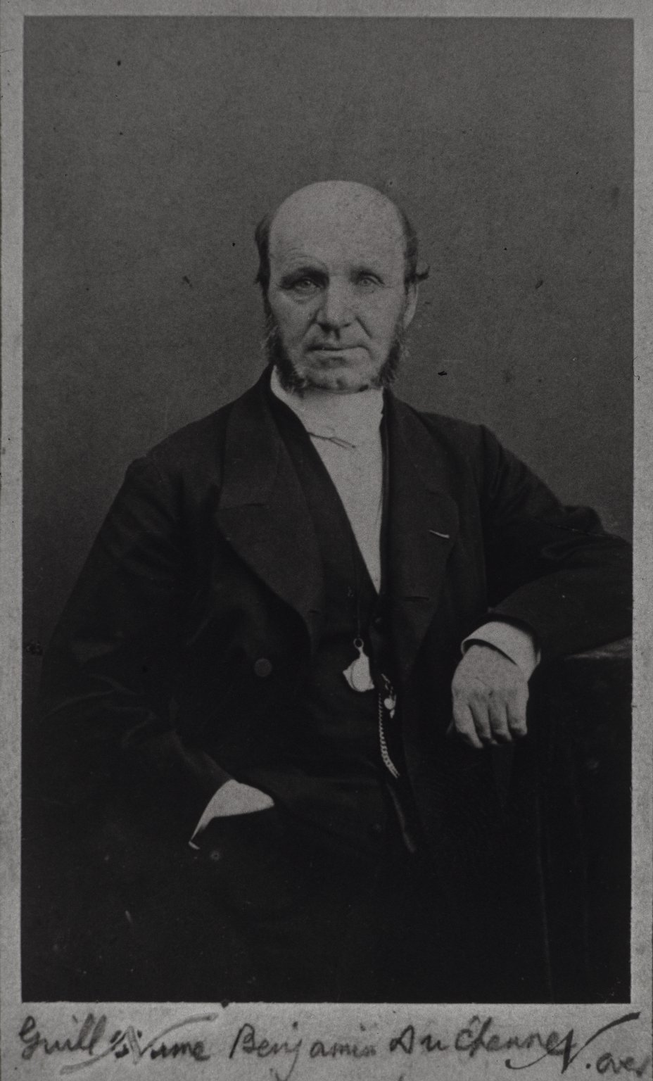 G. Duchenne